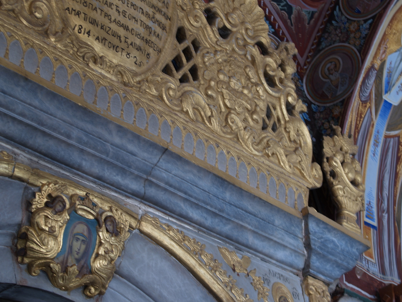 Great Lavra